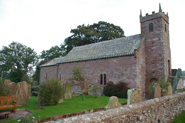 St Mary's parish church, Sebergham, Cumbria, seen from the northwest